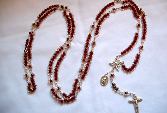 Rosario Completo